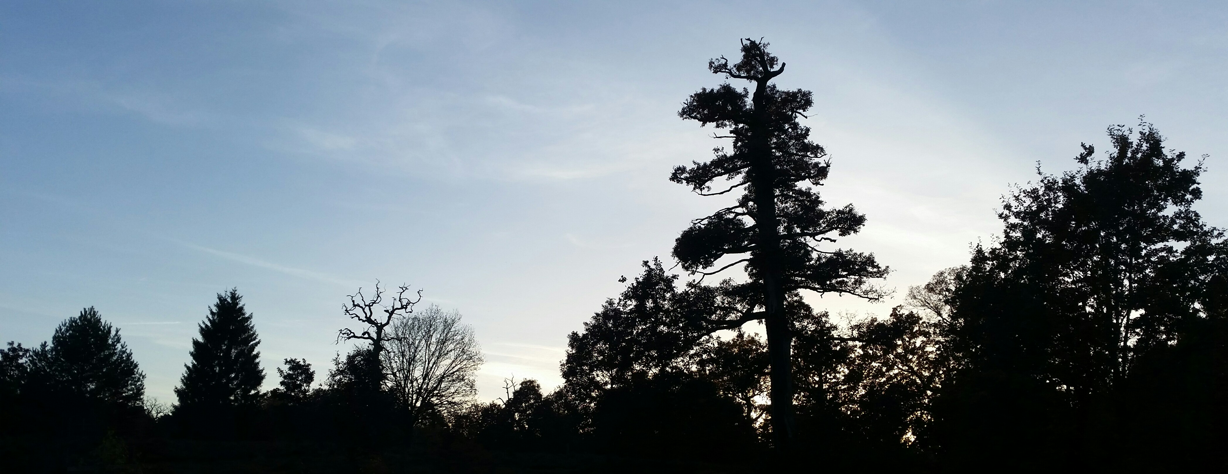 FFH 2830-331 beech and oak forests in the forest area of Göhrde, Lower Saxonia, Germany